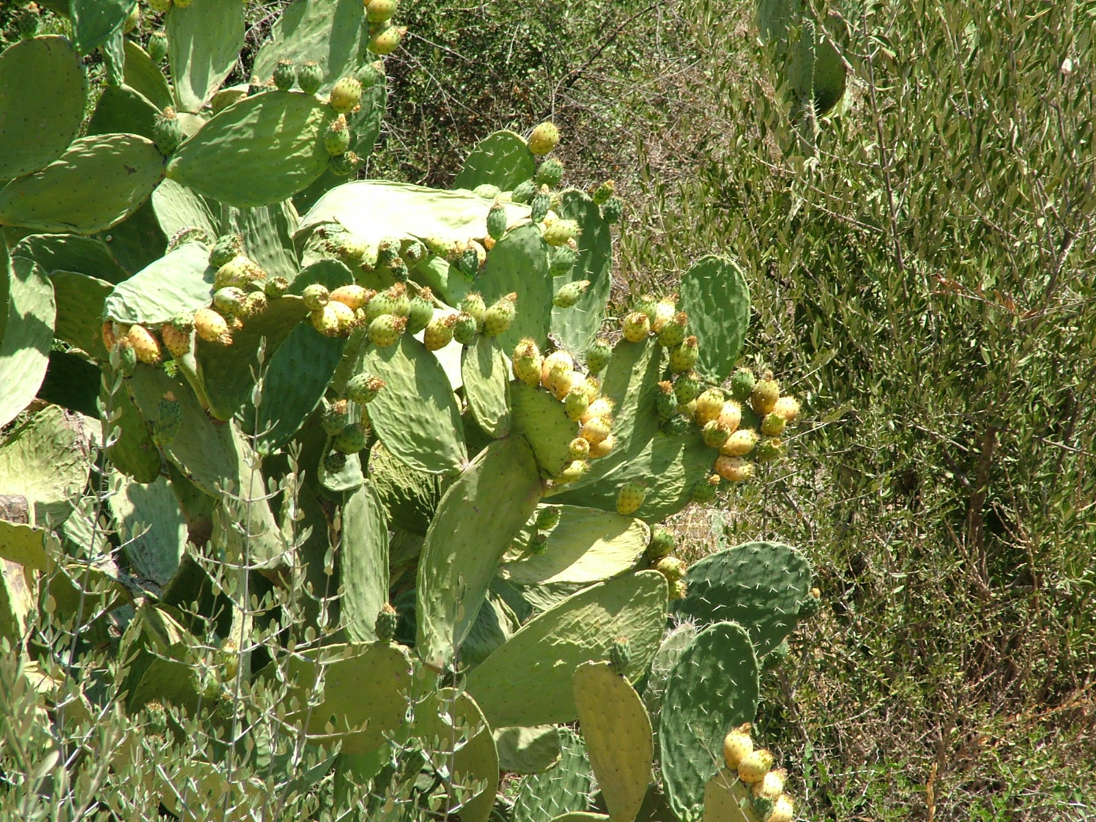 Prickly pears, Opuntia ficus-indica, Morocco